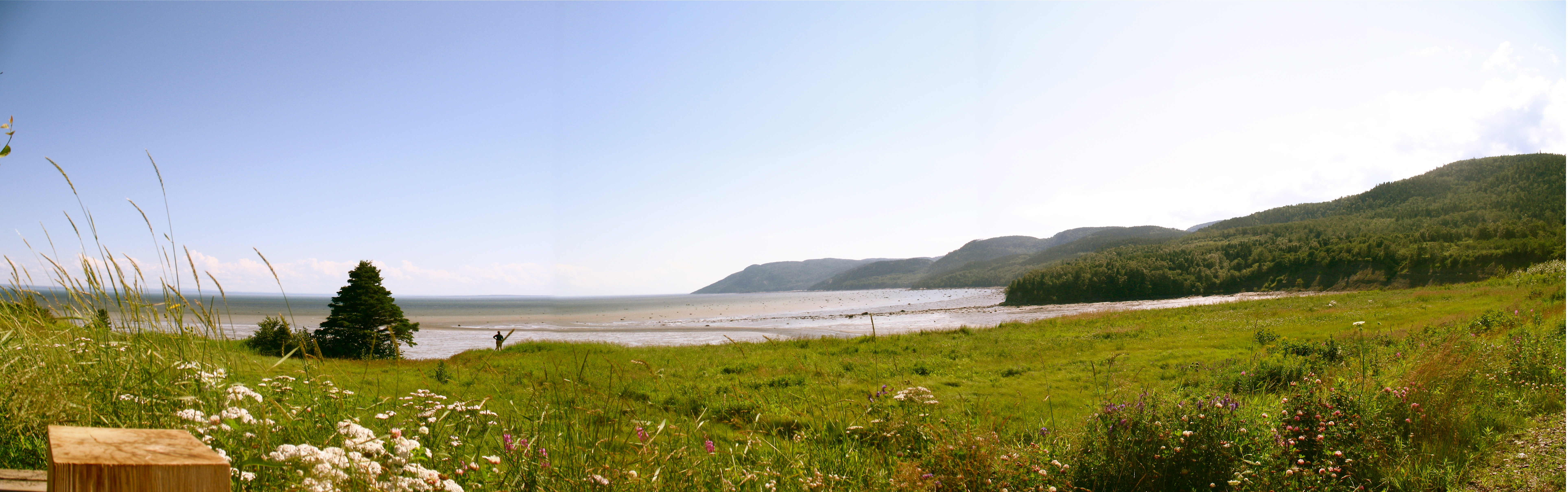 Panorama just outside of Tadoussac in the Charlevoix region of Quebec